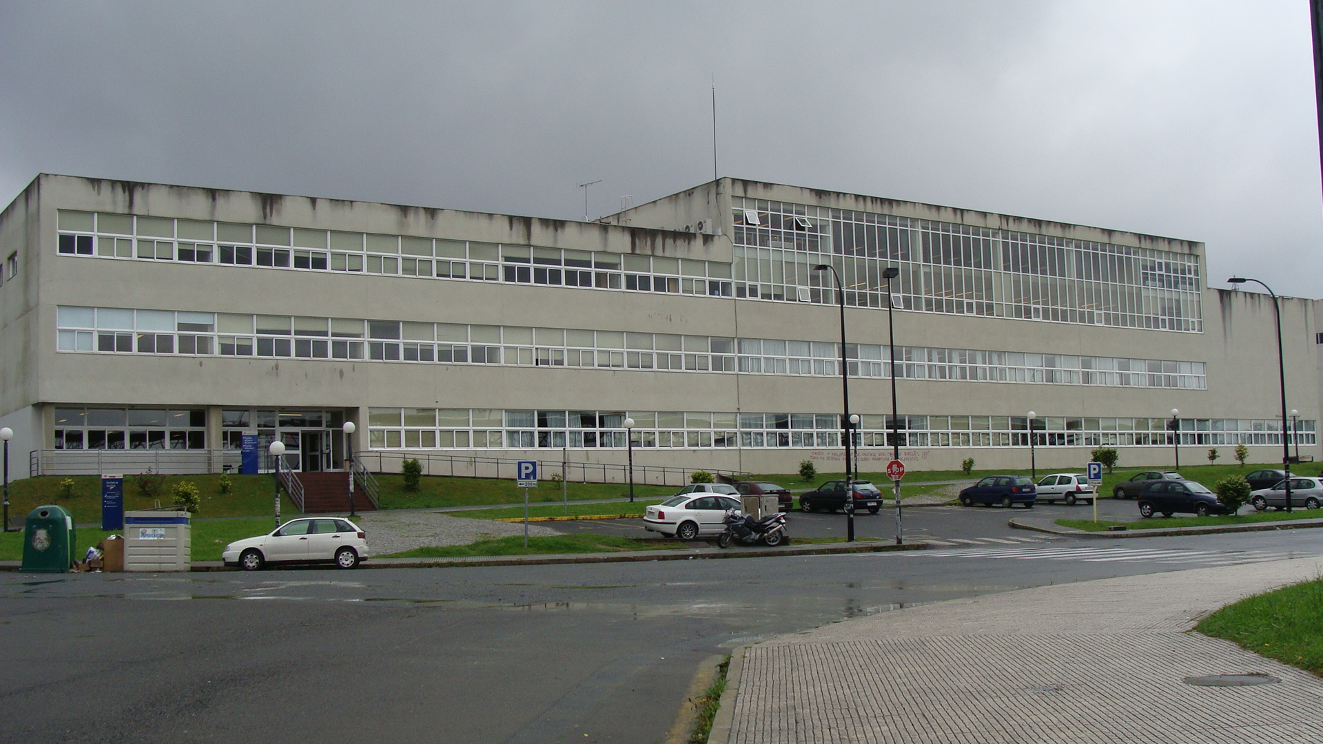 Faculty of Sociology and Sciences of Comunication of the University of Corunna, Galicia, Spain